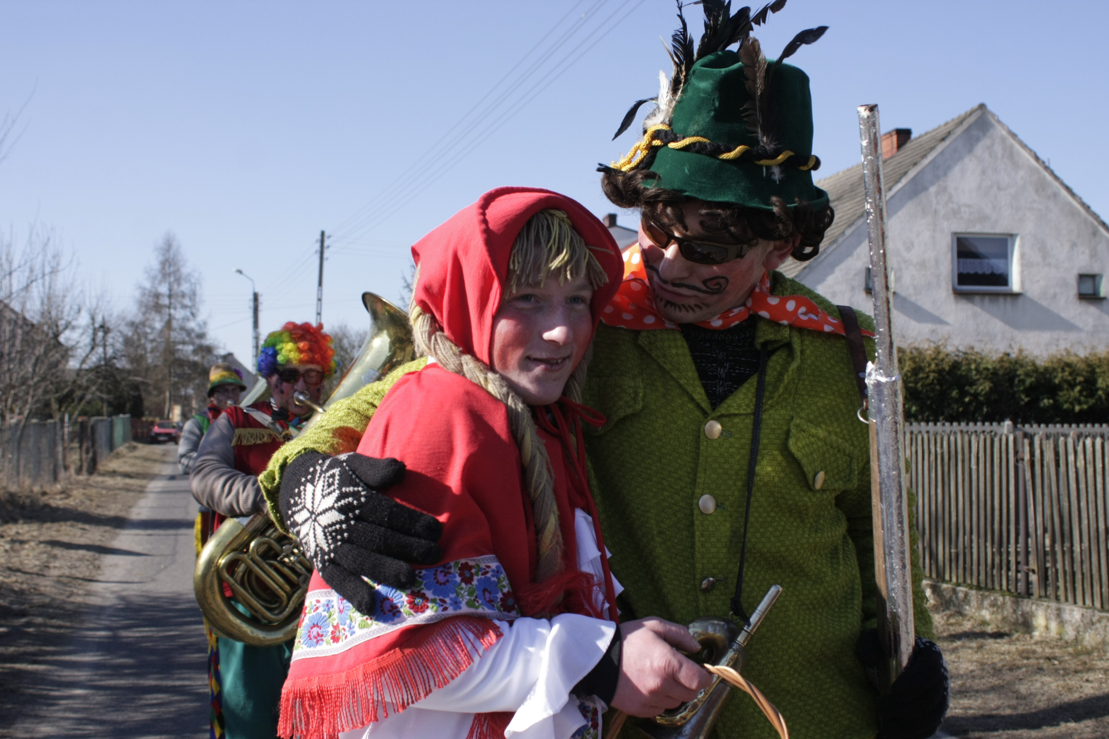 Leading the bear is practiced in many Upper Silesian towns and villages in carnival period. The groups with the bear go from house to house making a lot of noise. According to the custom the housewife should dance with the bear, which ensure happiness and prosperity.